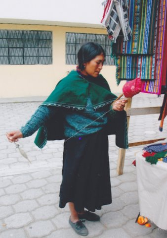 Woman with spindle whorl in Equador